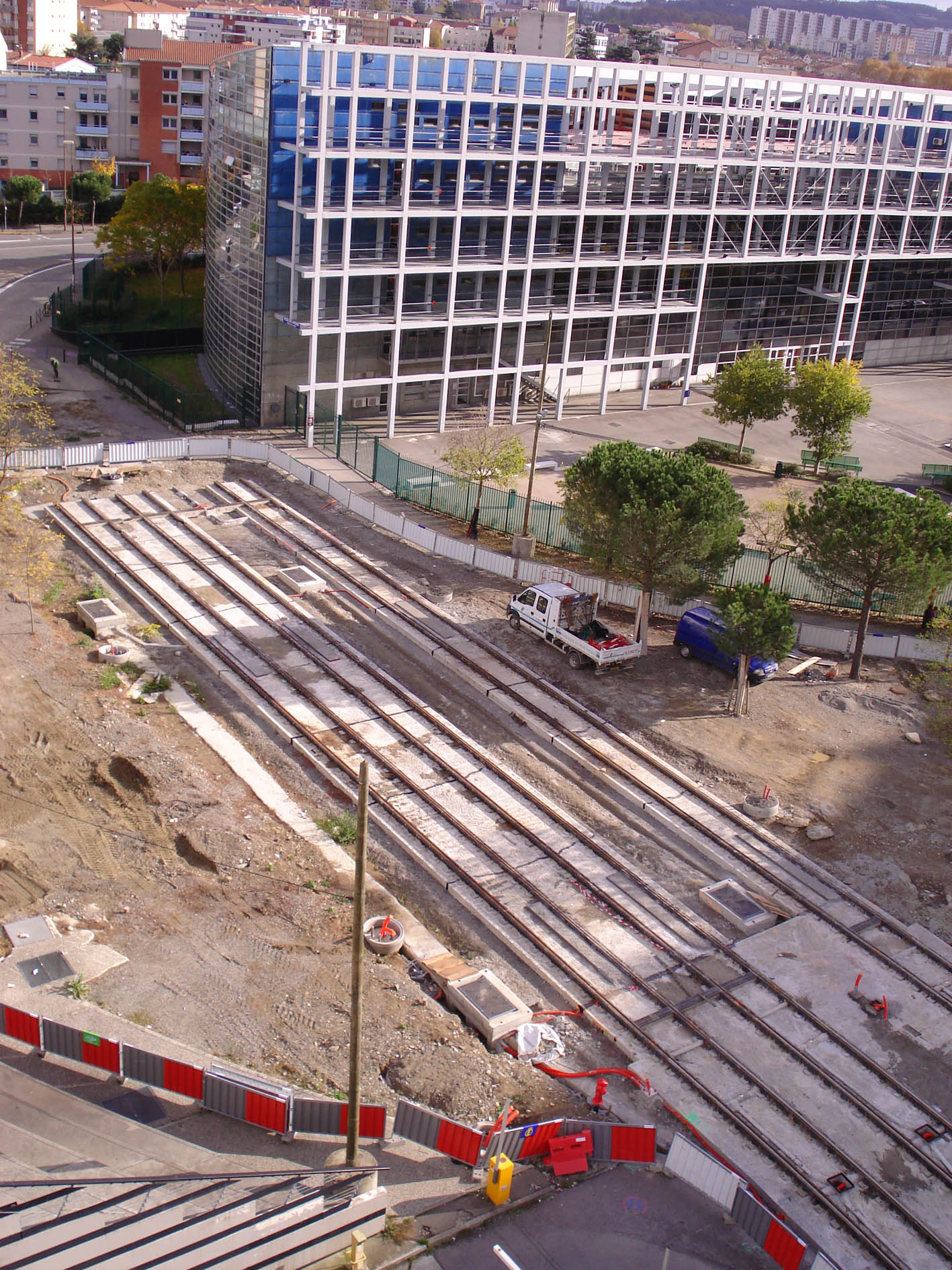 View of Arènes tramway station (under construction), Toulouse, France